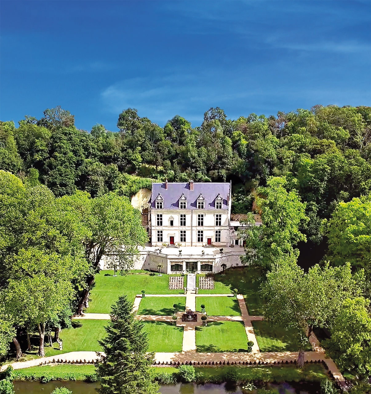 general view royal domain château-Gaillard Amboise